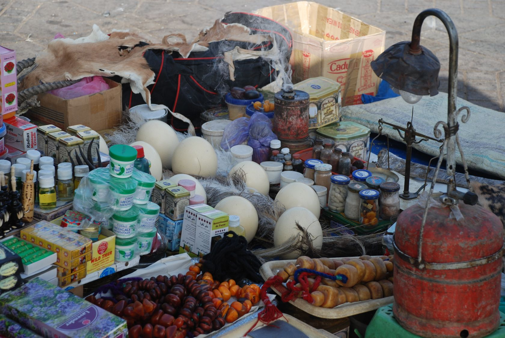 Marrakech, Djemaa el Fna, traditional african healer cure with ostrich eggs